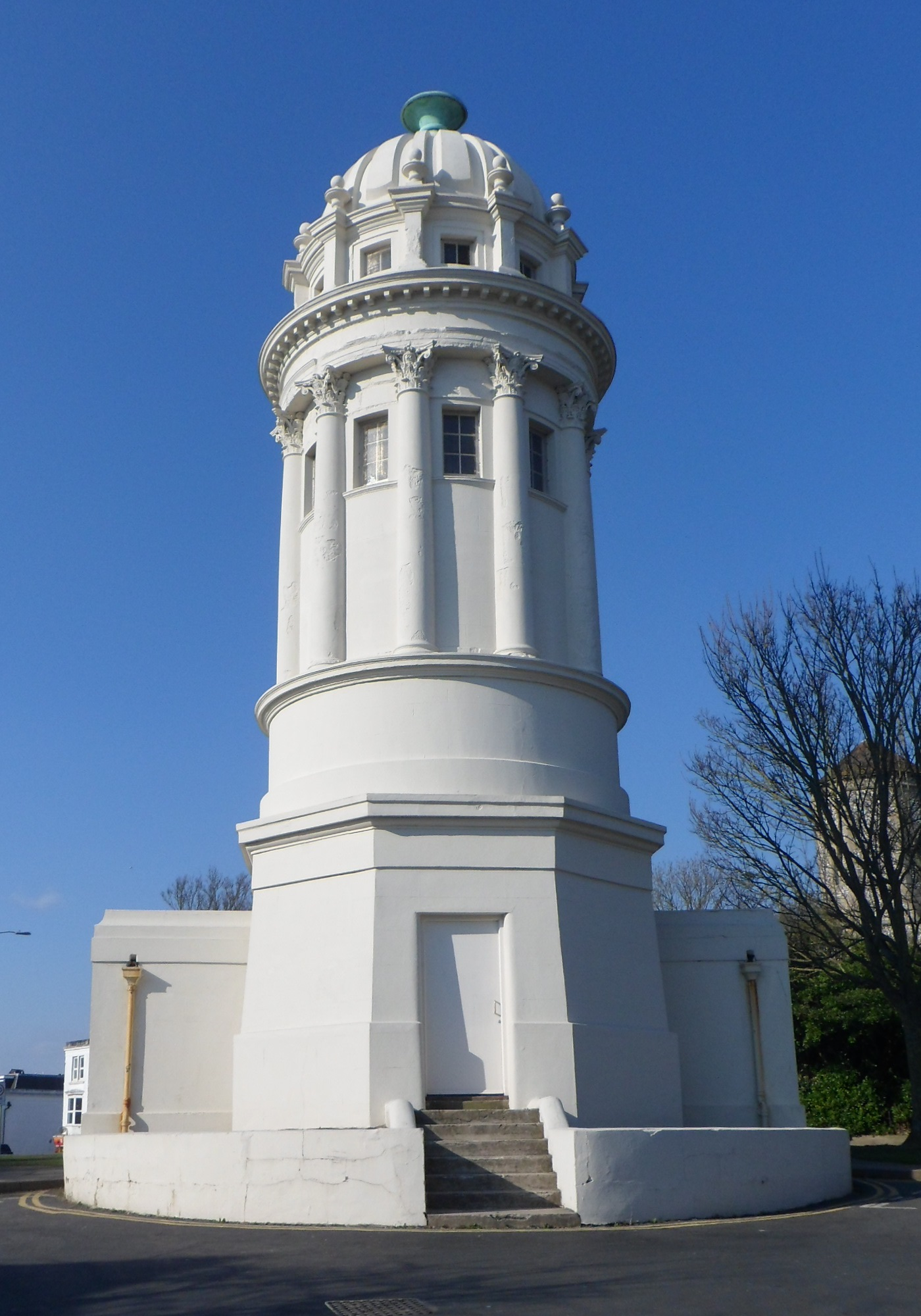 The Pepper Pot (or Pepper Box or The Tower) at the top of Tower Road, Brighton: designed by Charles Barry and built in 1830